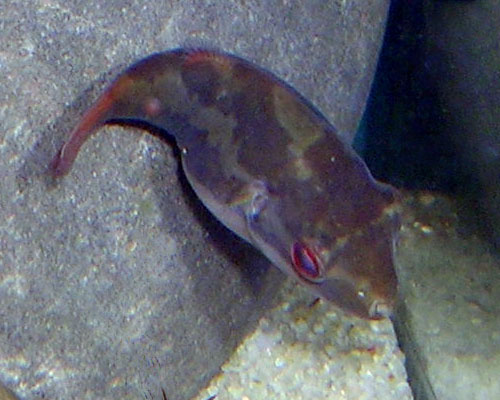 Male Carinotetraodon irrubesco, Tan, 1999 in a home aquarium. Length about 4 cm.